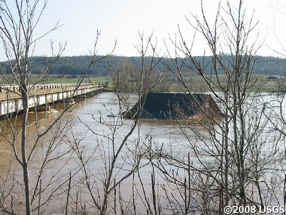 A house crashes into a bridge during flooding in Arkansas